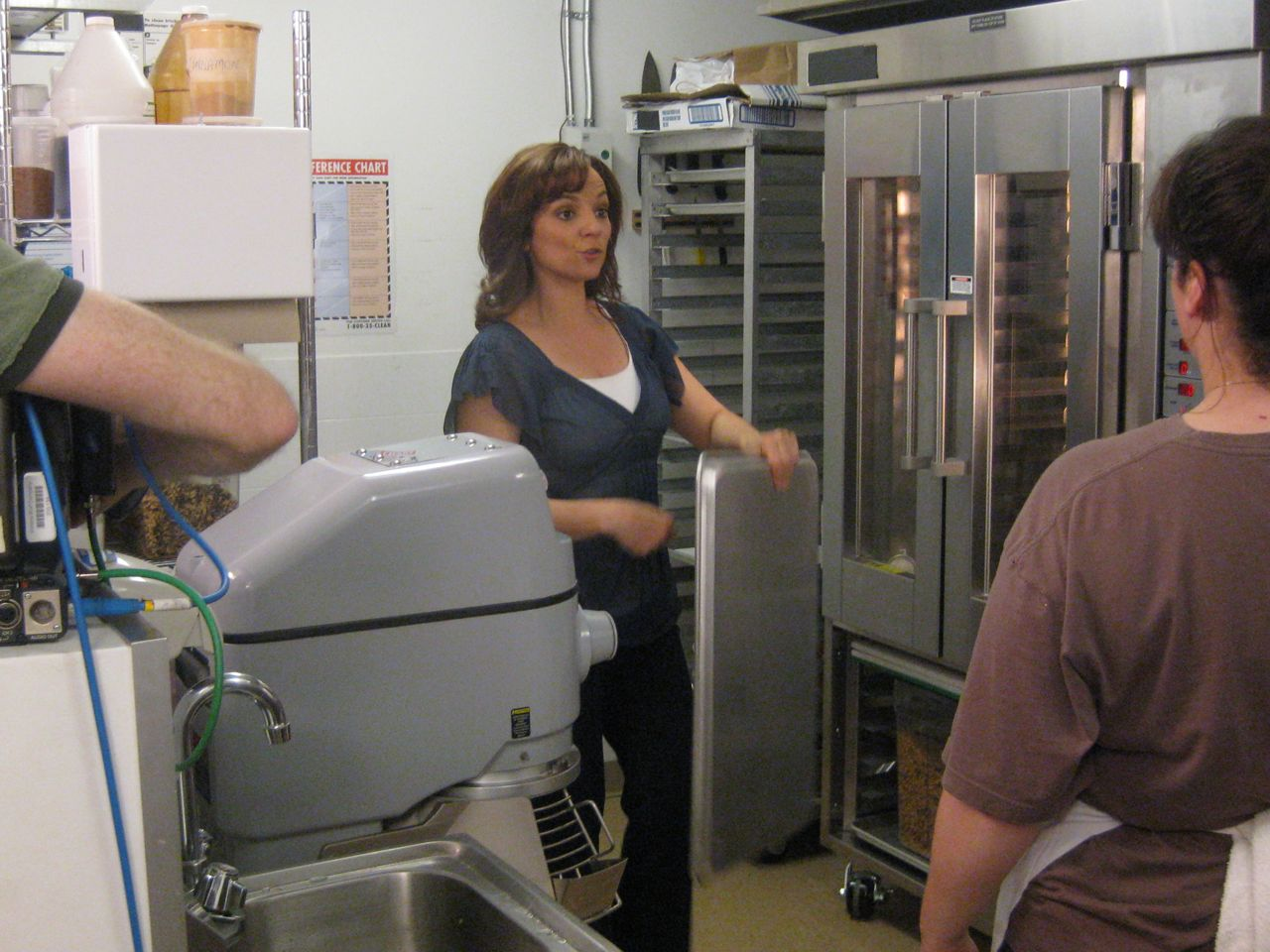 Christine Cushing in the Sweet Flour Kitchen